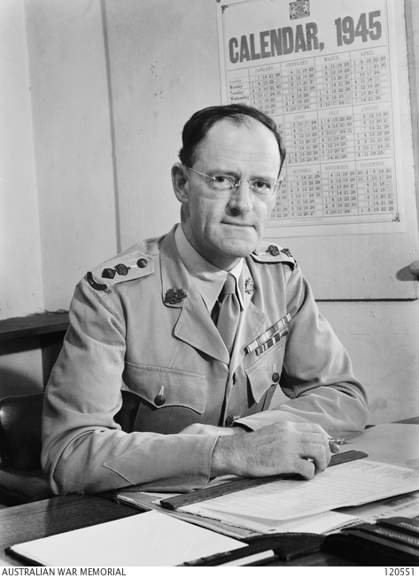 Victoria Barracks, Melbourne, Vic 1945-12. VX11986 Lieutenant Colonel E. G. Keogh Ed, Military Training (MT1).